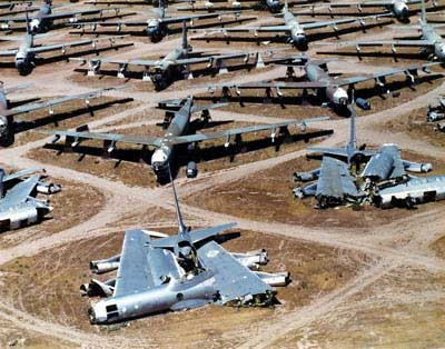 Boeing B-52 Planes were destroyed to pieces and left to open air at Boneyard in Arizona to be photographed by Russian satellites. Their destruction was part of the START treaty compliance.